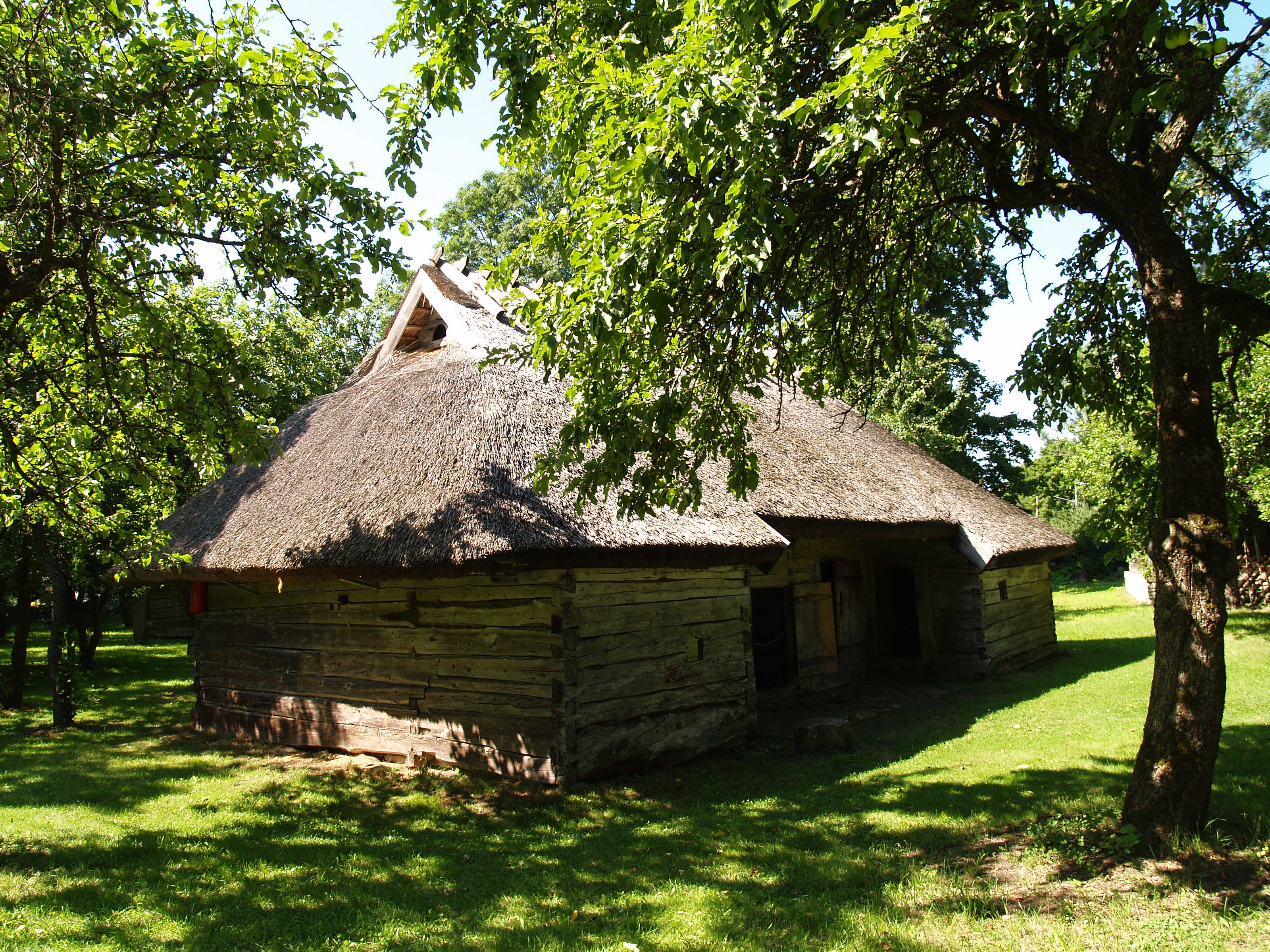 Mihkli Farm Museum